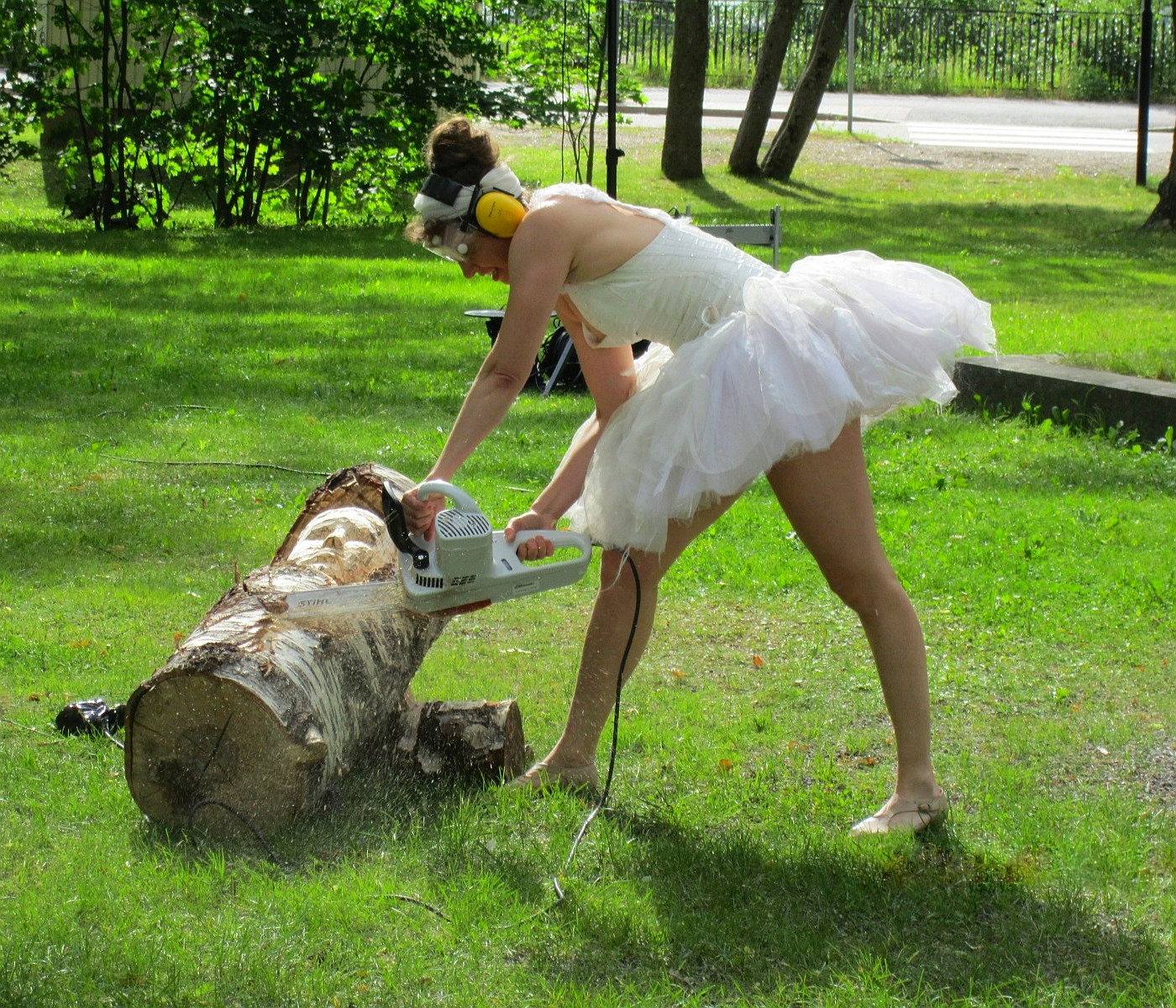 Performance – chainsaw ballet at contemporary art event “Sense of wood” (Hyvinkää, Finland)